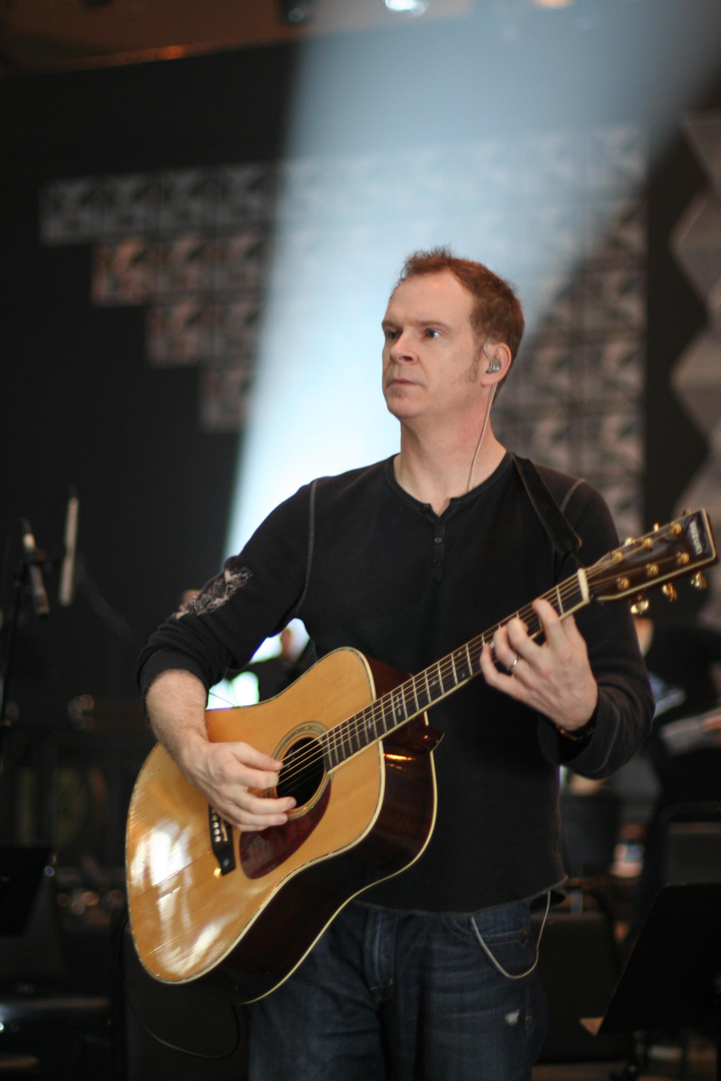 Jack Wall in 2010, New Orleans, LA.